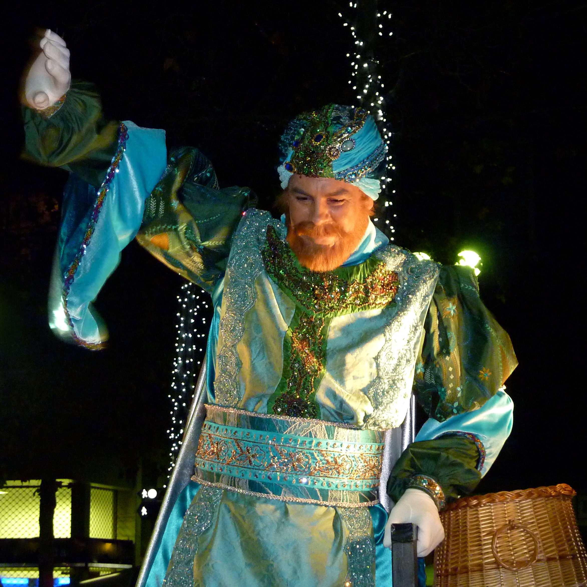 The arrival of Patge Xiu-Xiu in Terrassa on 26 December 2011